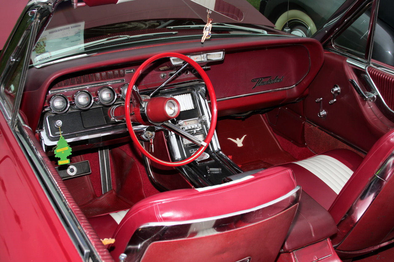 1965 Ford Thunderbird roadster - maroon - int